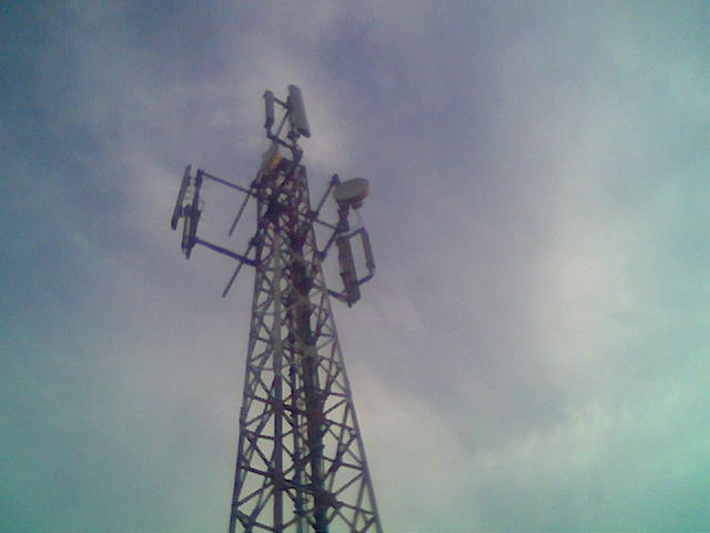 Image taken with Nokia6020.